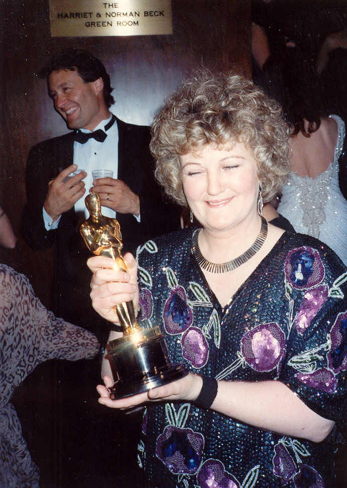 Oscar winner Brenda Fricker at the 62nd Annual Academy Awards.